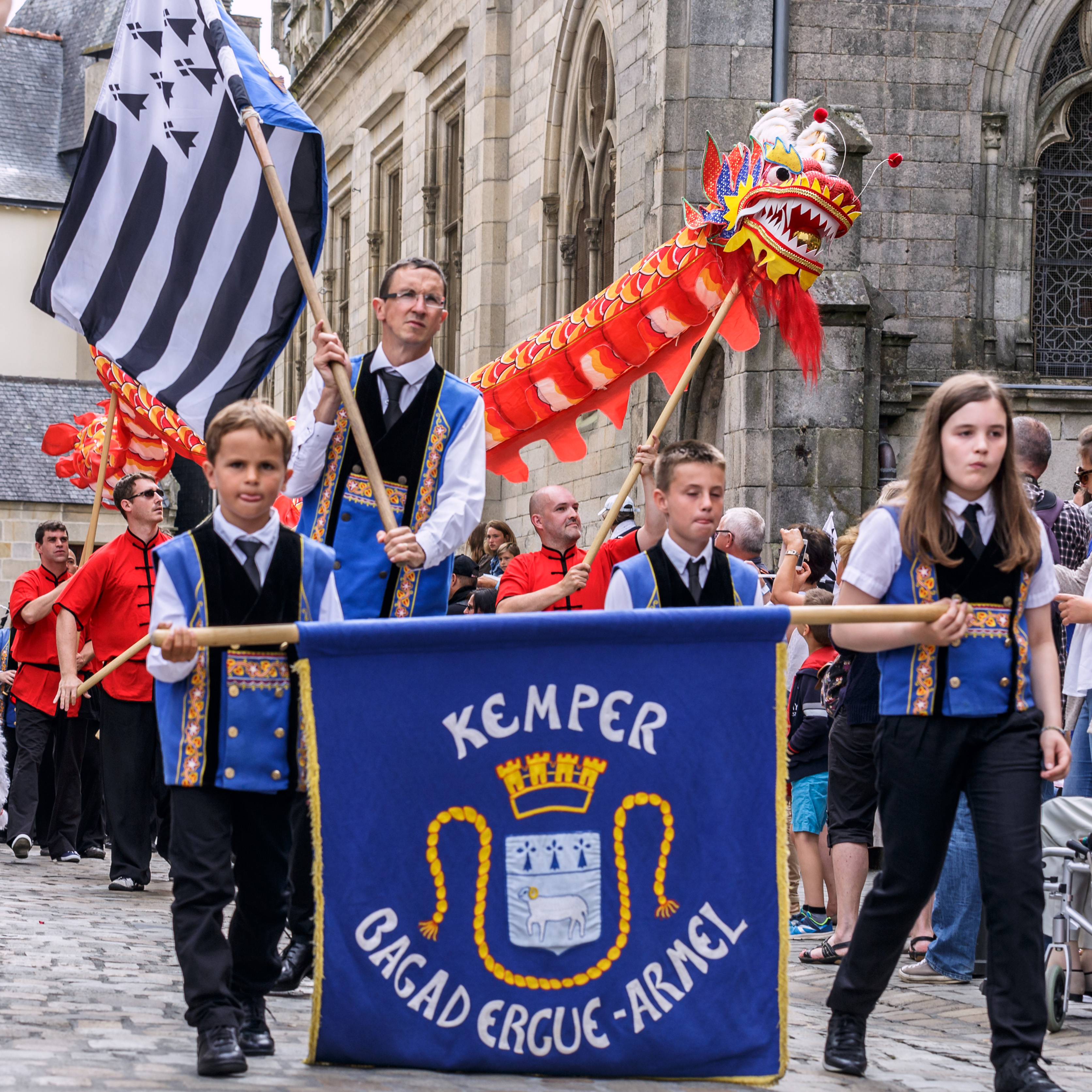 Parade of Breton folk groups during the 2016 Cornouaille Festival in the streets of Quimper.